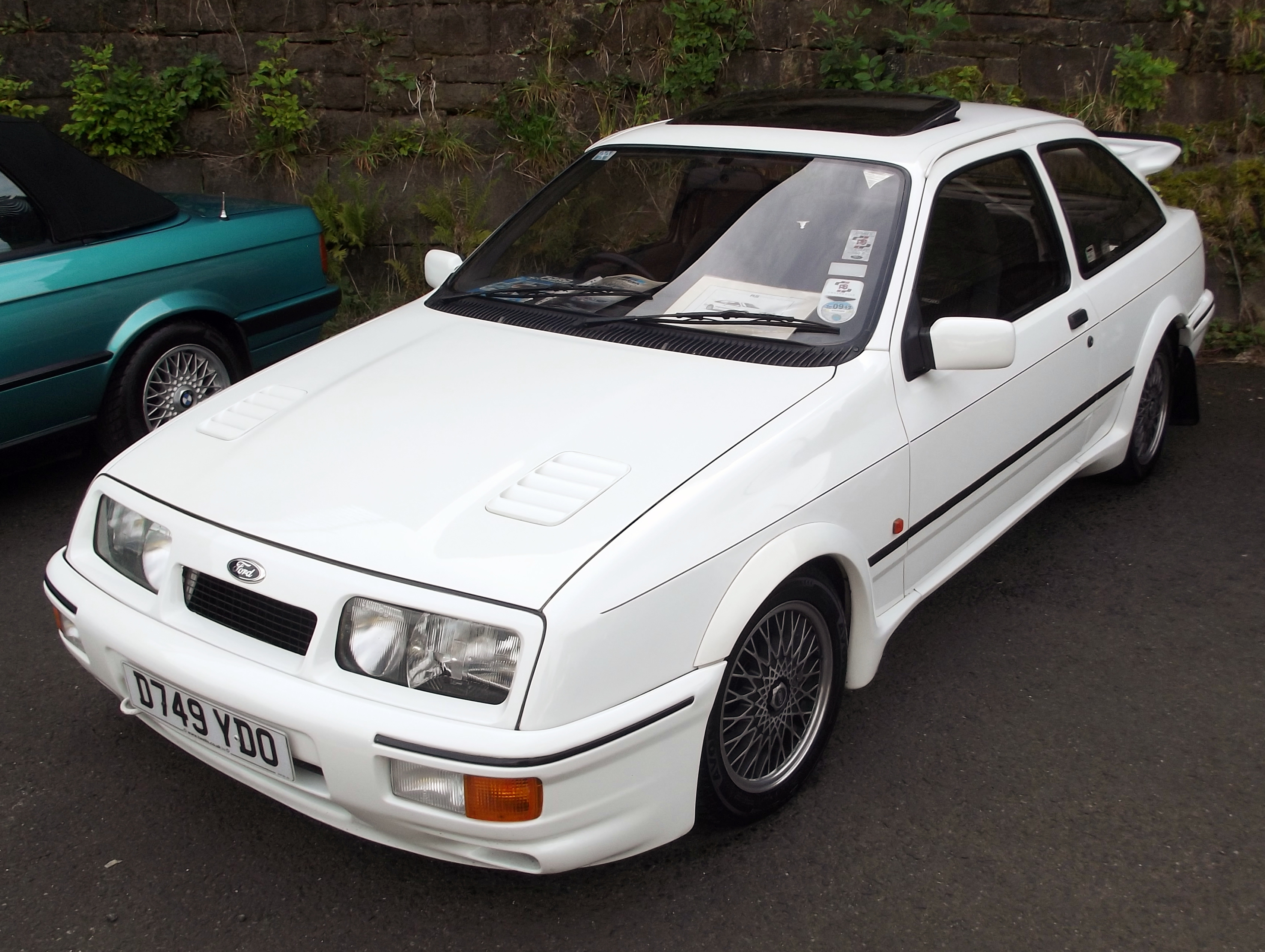 Taken on the Railway Station Car Park at Bury